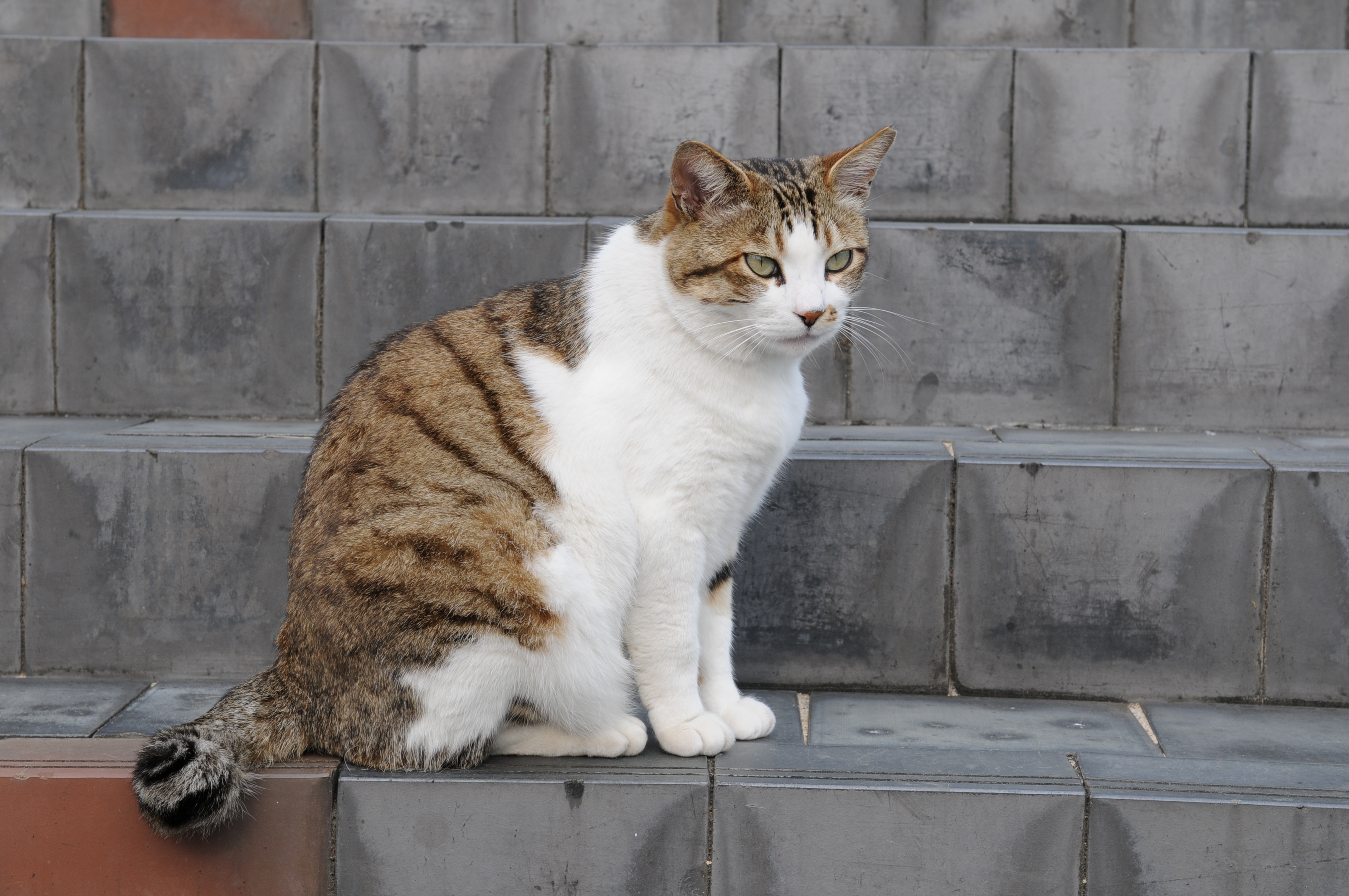 A sitting brown and white tabby cat with green eyes